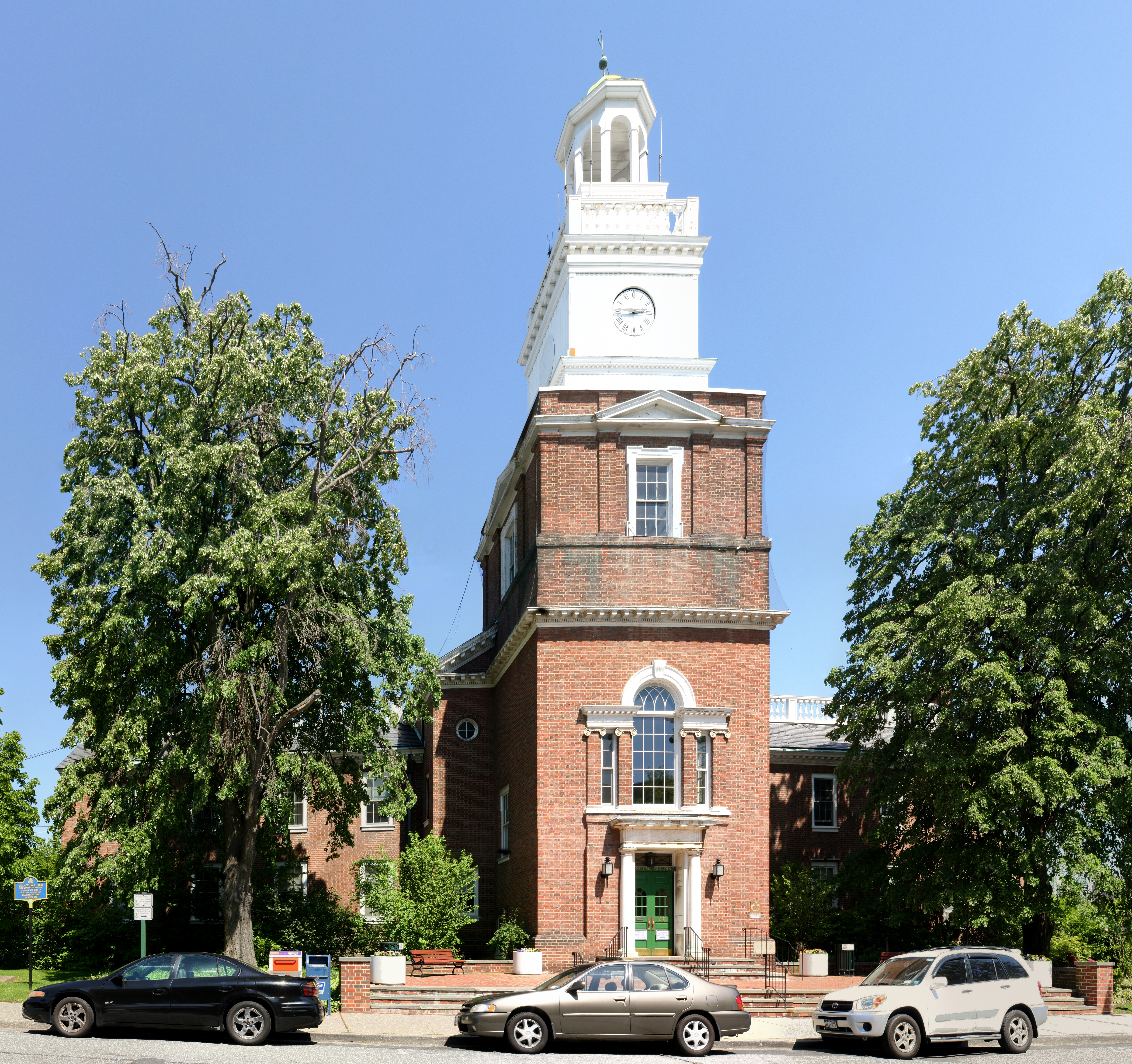 Village Hall, Freeport, New York - Is also known as the Municipal Building, was built in 1928 to replicate Independence Hall in Philadelphia, and was enlarged in 1973.